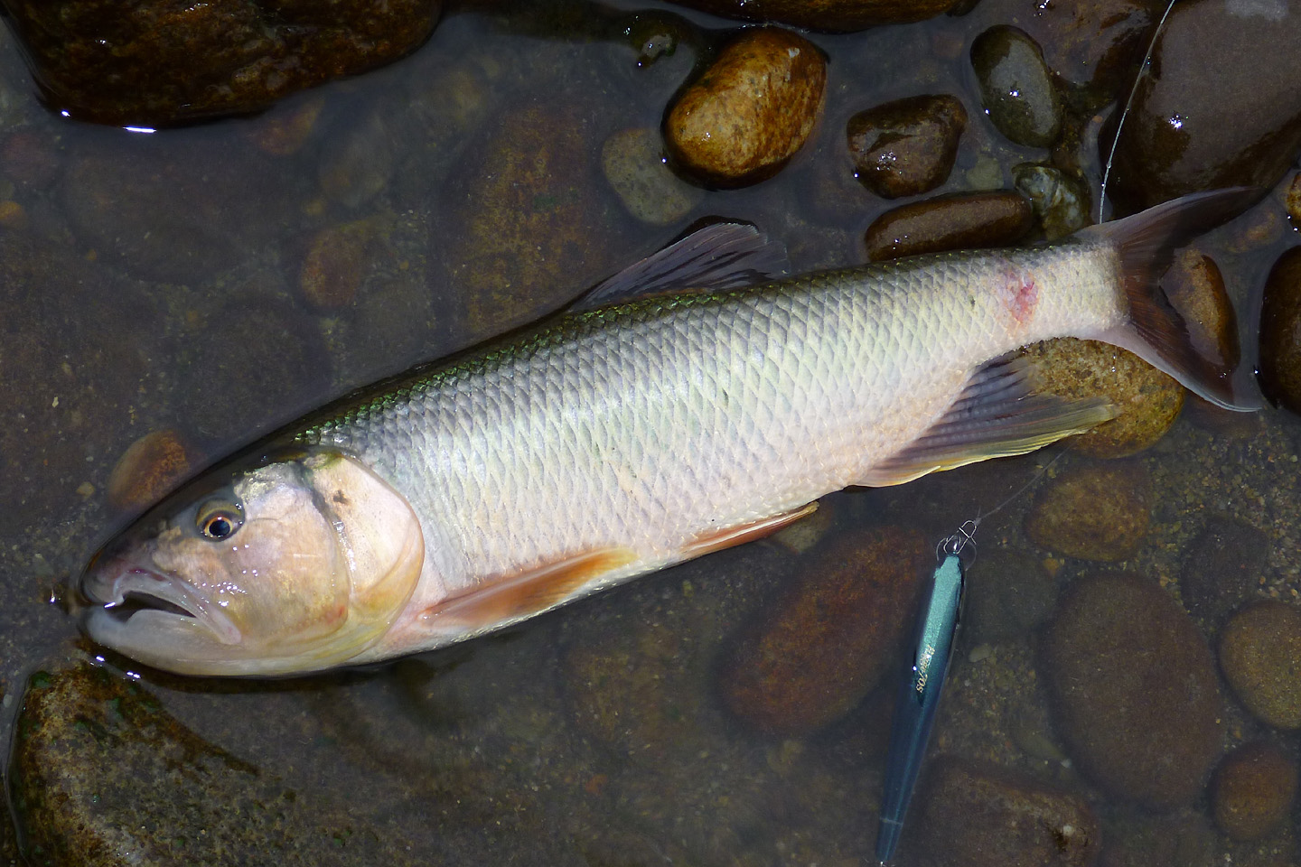 Three-lips, Opsariichthys uncirostris at Nagara River, Japan